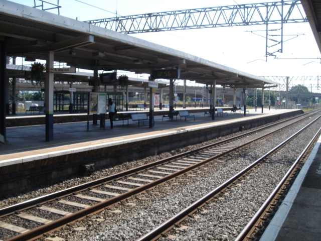 Platform-level southbound view at Bletchley station.